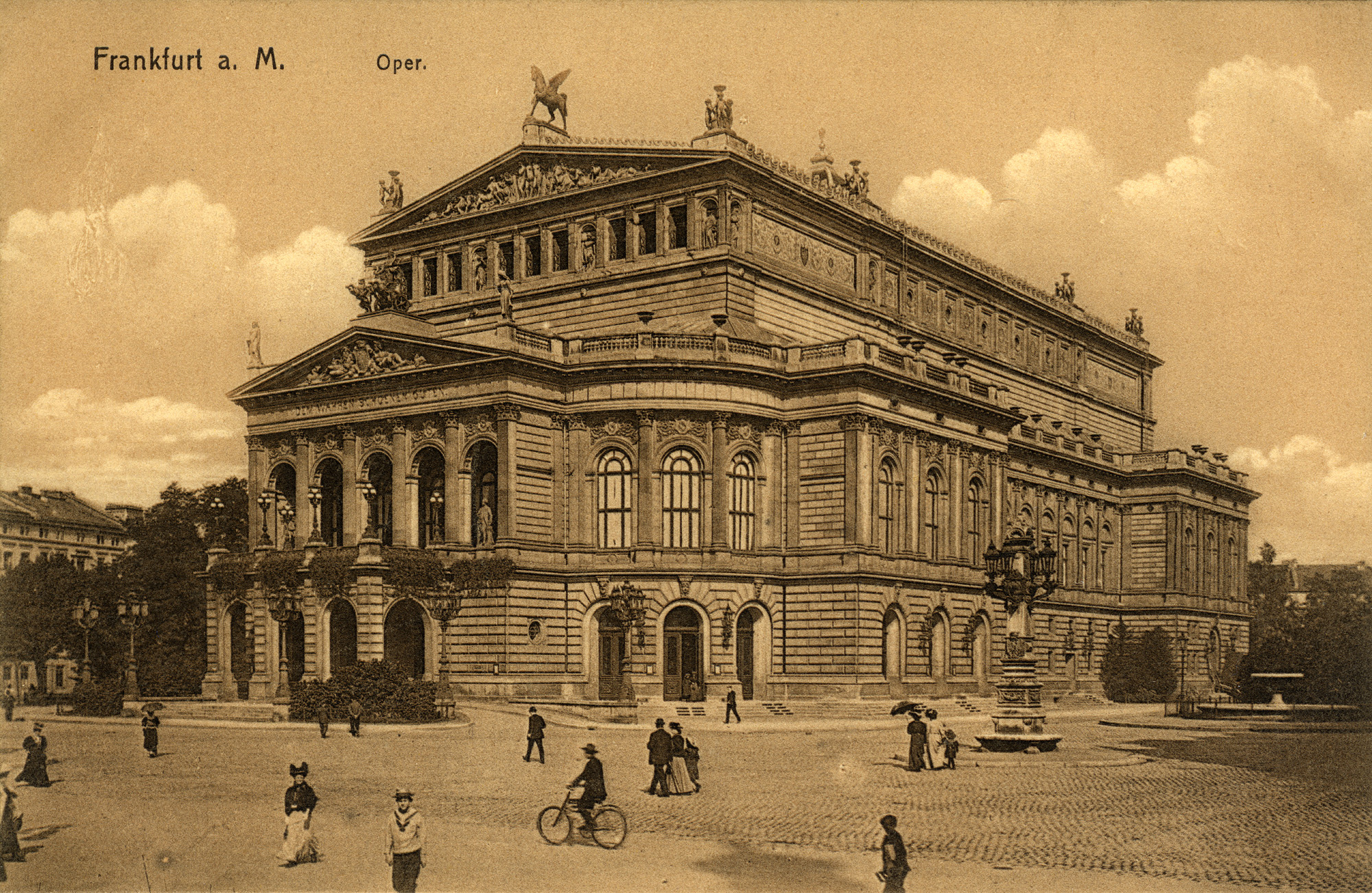 Frankfurt on the Main: Alte Oper (Old Opera) as seen from the southeast